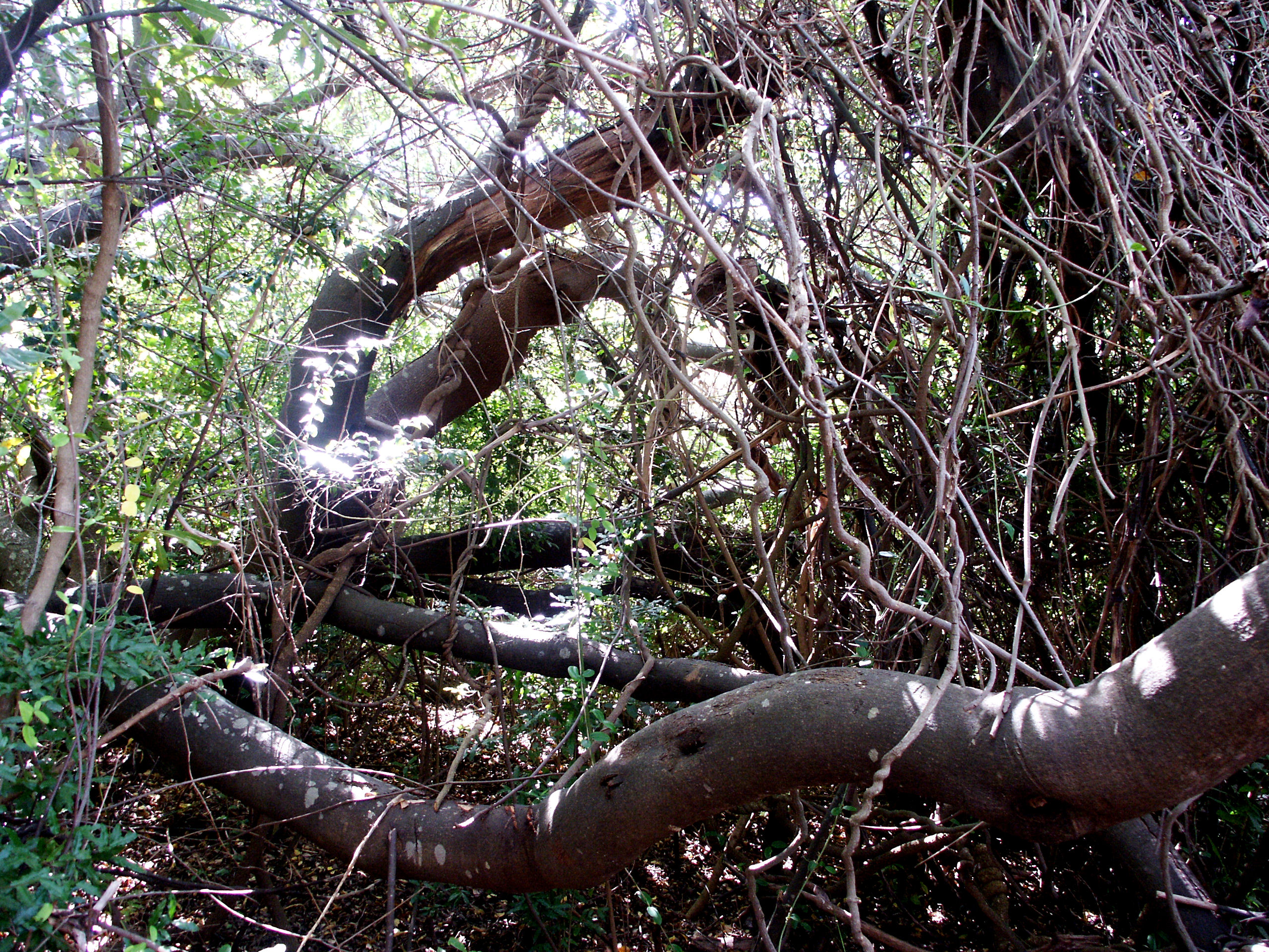 Riebeeck's hedge. Wild Almond surviving from 1659, overgrown by a more recent hedge. This media shows a South African Protected Site with SAHRA file reference 9/2/111/0060/001.